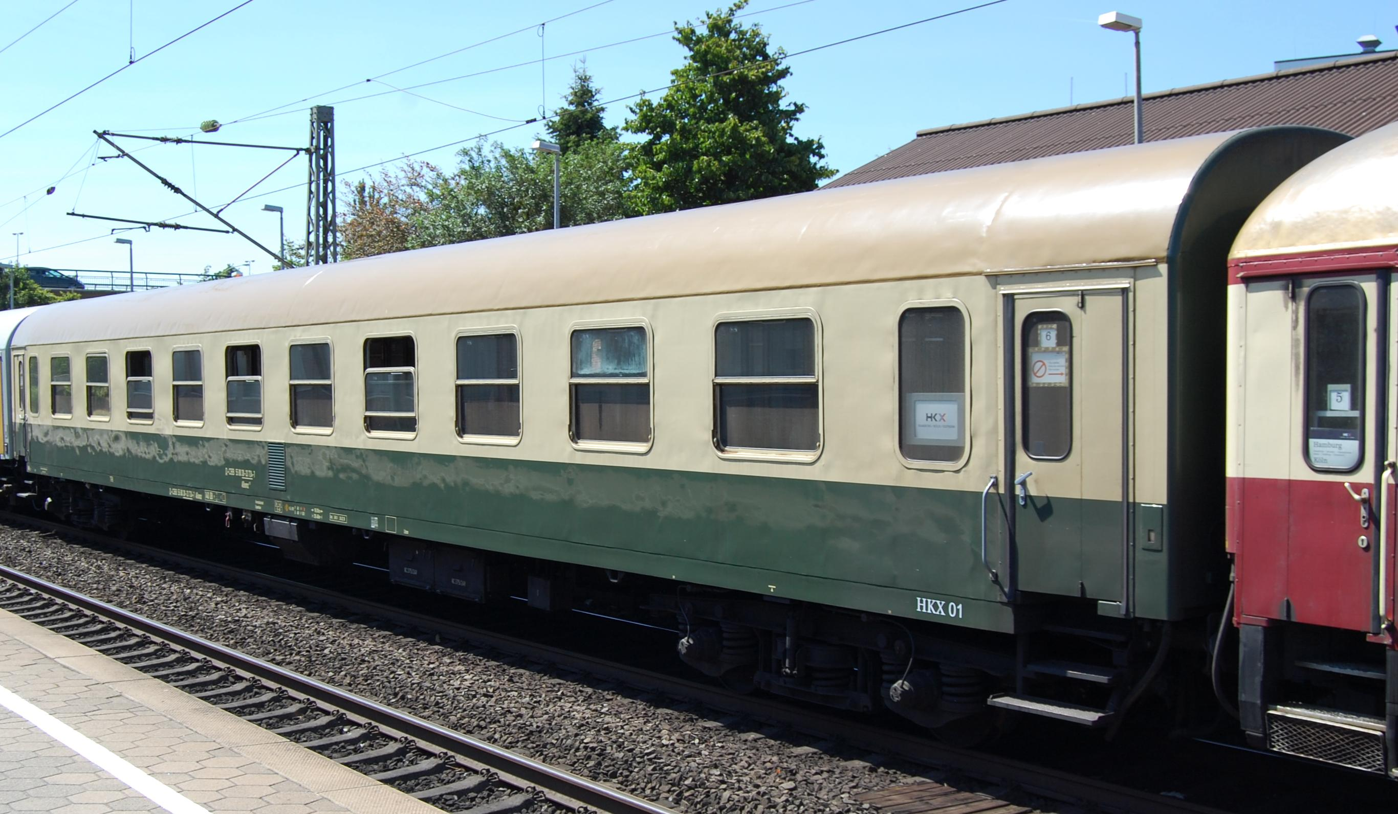 A compartment coach with first and second class, owned by the Centralbahn. The coach was part of a Hamburg-Köln-Express train (HKX 1812), seen at Hamburg-Harburg station.